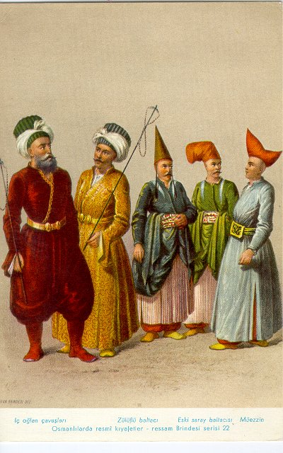 Official uniforms of the Ottomans, Giovanni Jean Brindesi series. İçoğlan Çavuşları (Officers of the Acemi Ocağı), Zülüflü Baltacı (Interior Palace Servants), Eski Saray Baltacısı (Old Palace Servants), Müezzin.